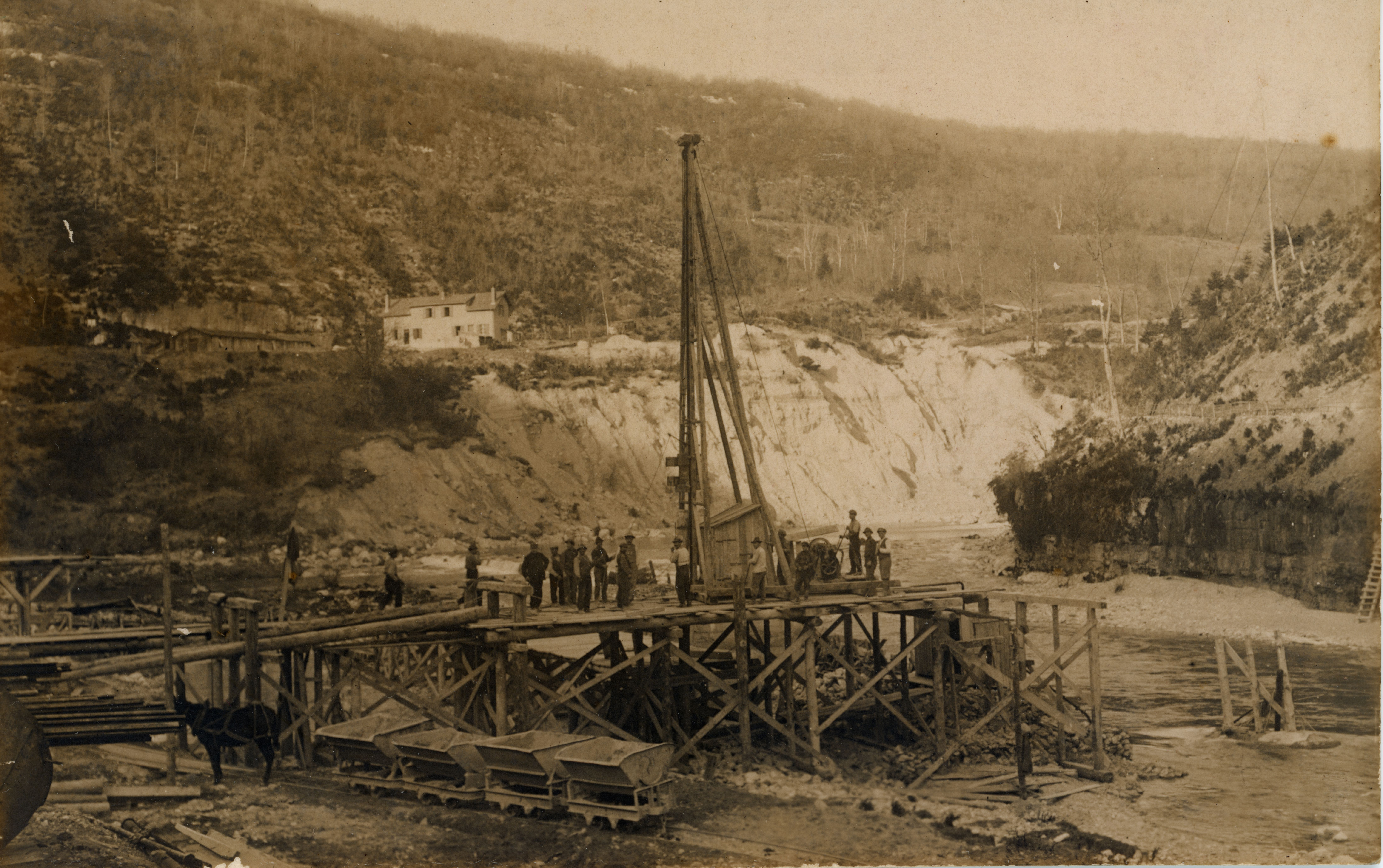 Construction of Chartreuse de Vaucluse dam in 1922 which was flooded in 1968 by the filling of Vouglans dam. In the foreground a horse seems to be harnessed to pull four little wagons on rails.